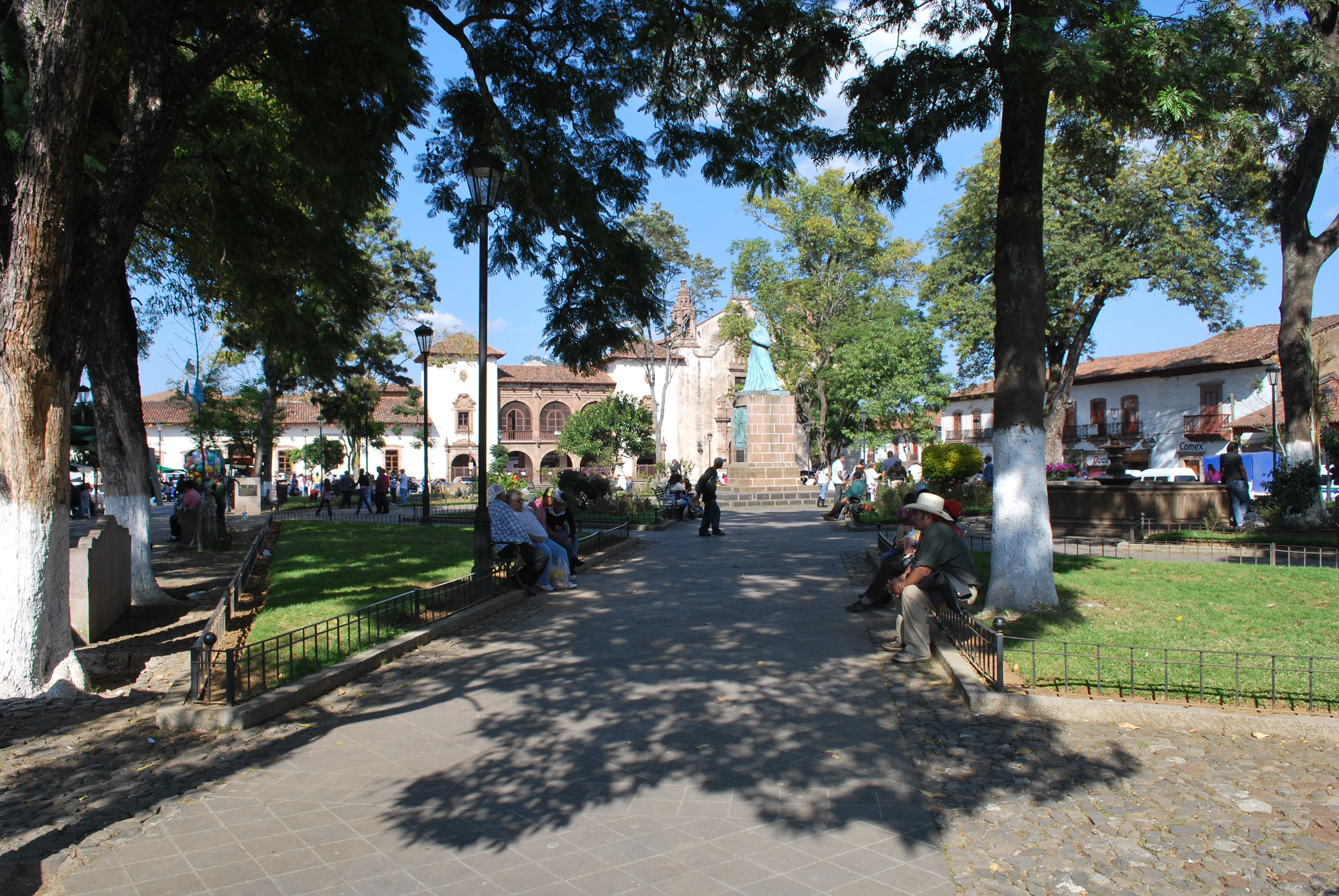 View of the Gertrudis Bocanegra Plaza with the ex monastery of San Agustin in the background in Pátzcuaro, Michoacan